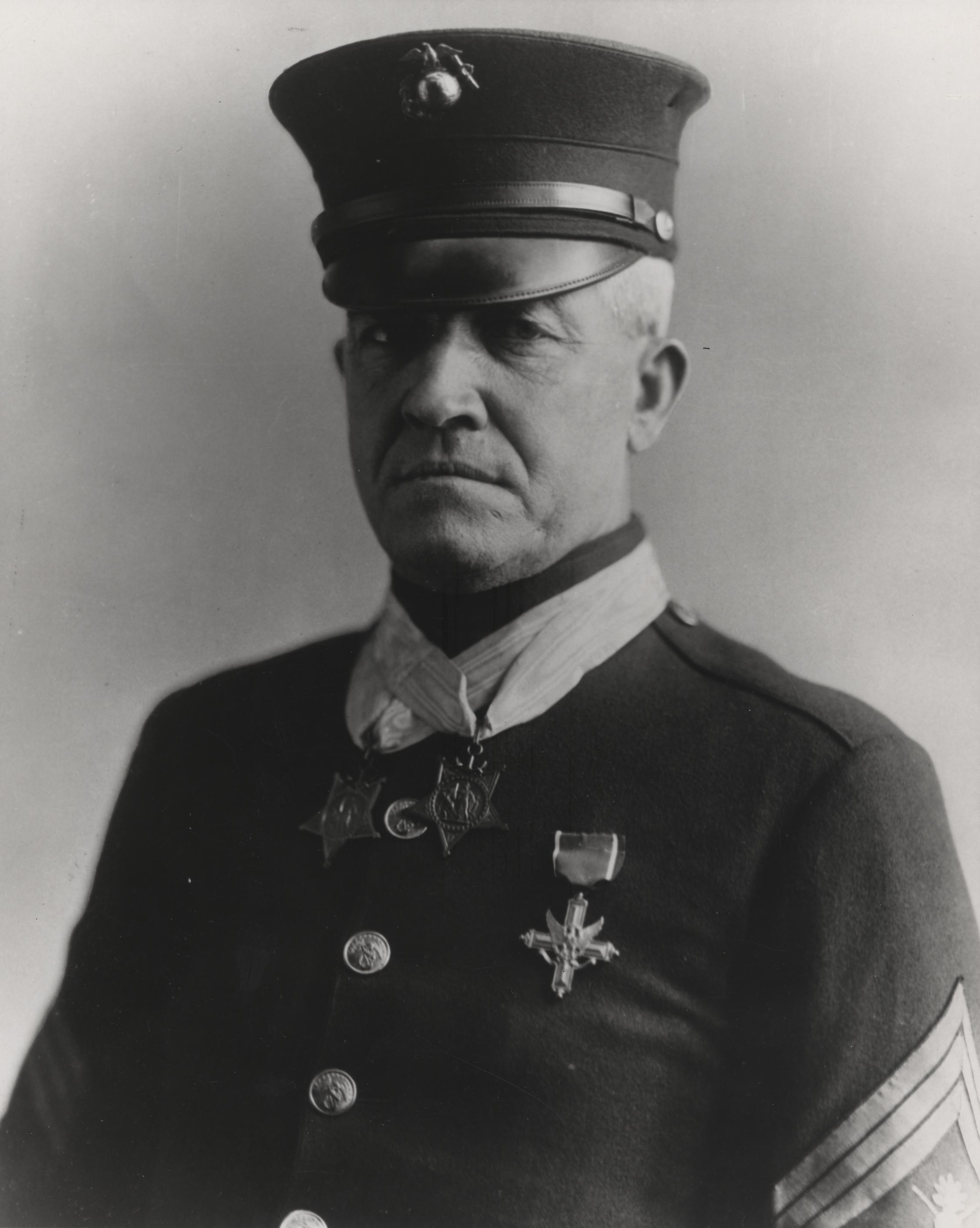 Depicted is then-Gunnery Sergeant Daniel Daly, a double recipient of the Medal of Honor. From the Dan Daly Collection (COLL/3334) at the Marine Corps Archives and Special Collections.